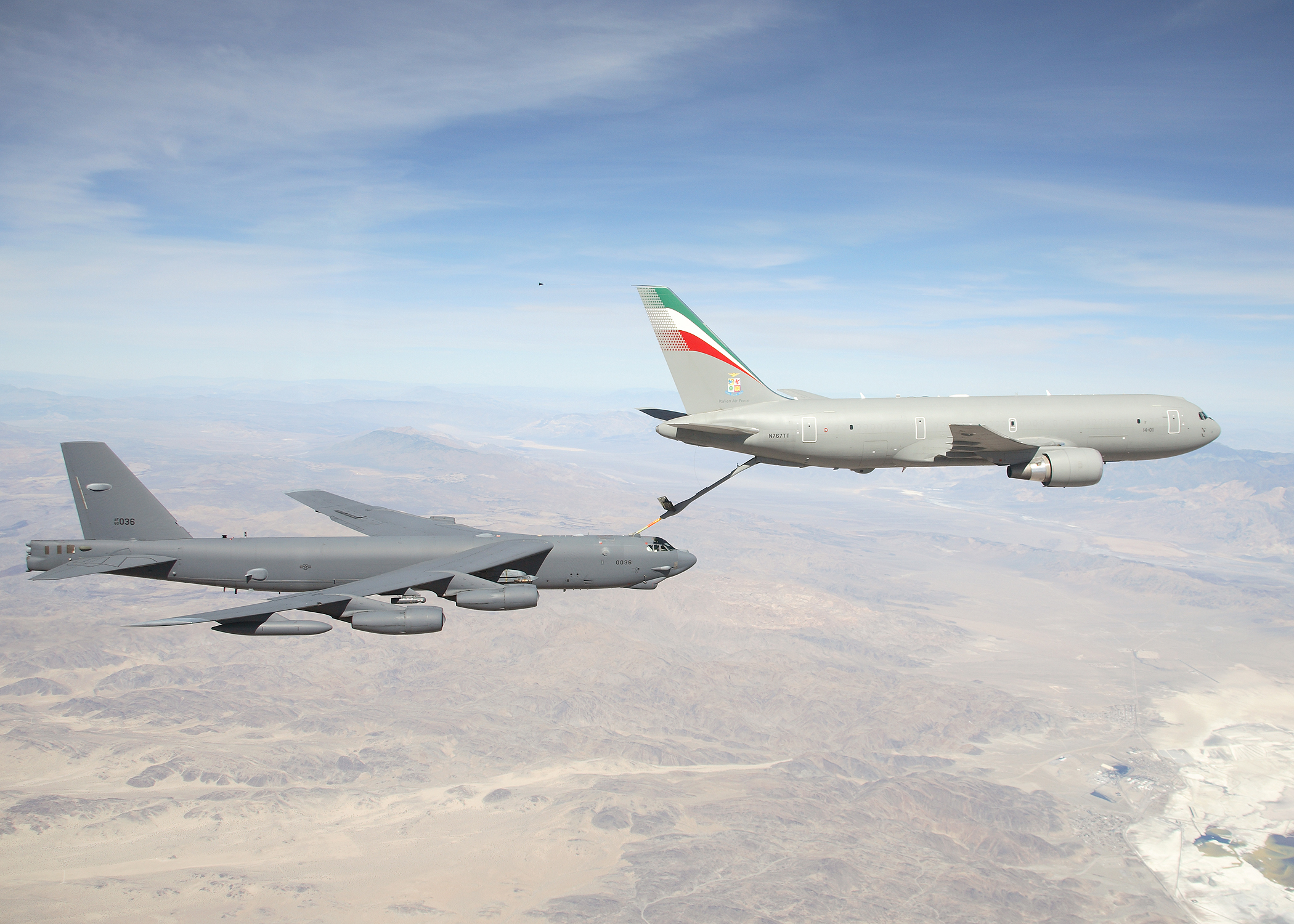 An Italian Air Force Boeing KC-767 tanker (s/n 14-01) refuels a U.S. Air Force Boeing B-52H-150-BW Stratofortress (s/n 60-0036) over California's Mojave Desert on 5 March 2007. The tanker was testing its refueling equipment at Edwards Air Force Base, California (USA).